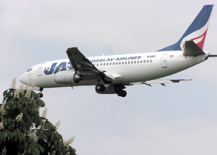 JAT Boeing 737-300 (YU-ANV) landing at London (Heathrow) Airport. JAT is introducing a new colour scheme, this photo shows the old scheme.